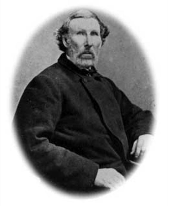 William Dawson Lawrence - Nova Scotia House of Assembly Photo